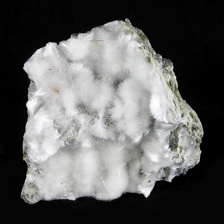 Artinite Locality: Artinite pit, Clear Creek area, New Idria District, Diablo Range, San Benito County, California, USA (Locality at ) Size: 5.9 x 5.1 x 4.4 cm. Artinite (Hydrated Magnesium Carbonate Hydroxide) forms as a crust of acicular to fibrous crystal aggregates, sometimes forming velvety balls, as with this superb specimen that was in the notable collection of James and Dawn Minette. These are California classics, though many collectors are not aware of this unusual carbonate (it looks a lot more like many silicates - certainly not a typical-looking carbonate). A really pretty example, in fine condition.